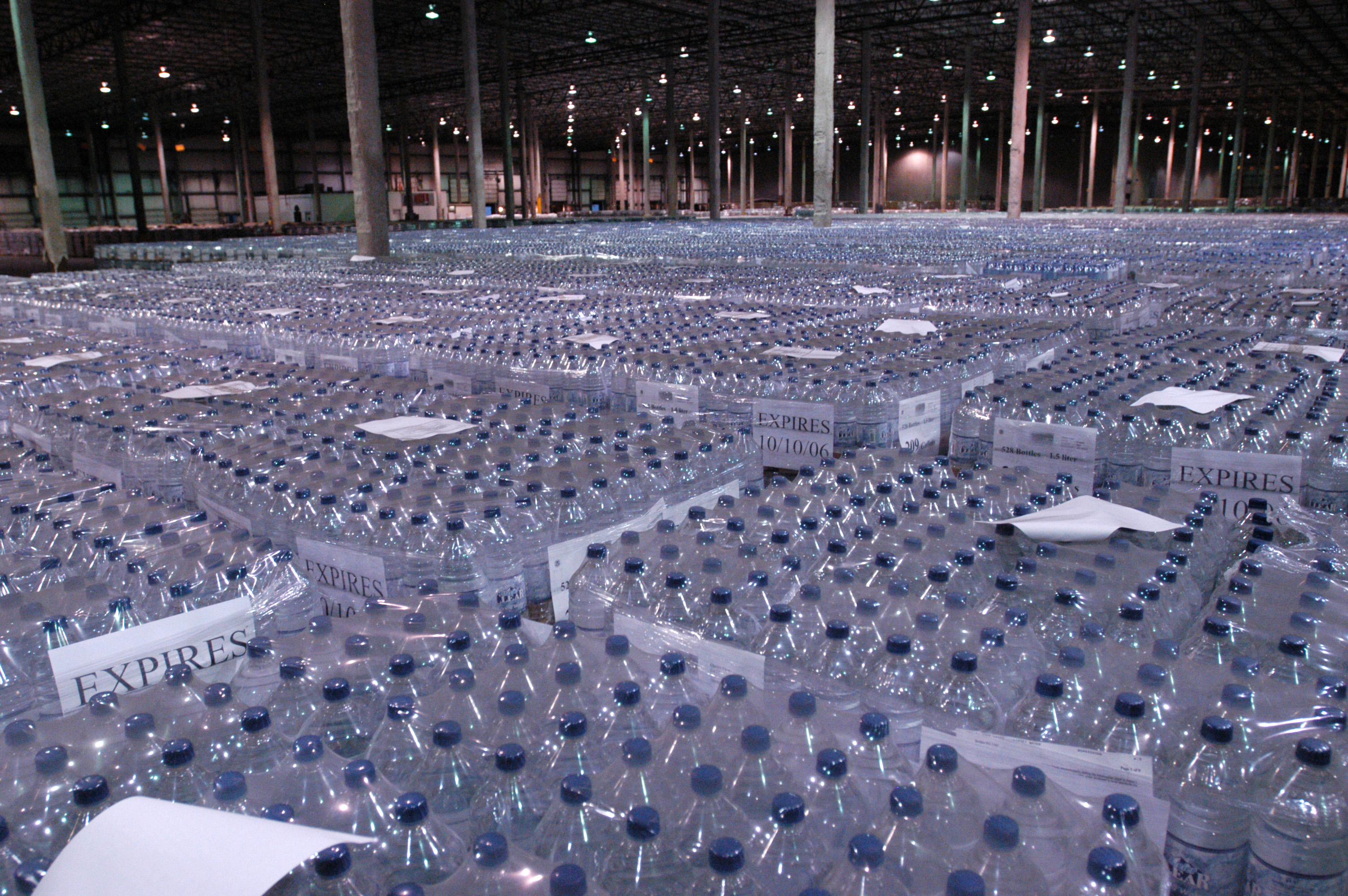 Palmetto, GA, July 9, 2005 -- This bottled water, stored at the FEMA Palmetto Regional Distribution Center, is to be distributed to Mississippi, Alabama and Florida. FEMA is distributing supplies in preparation of the landfall of Hurricane Dennis. FEMA Photo/Mark Wolfe